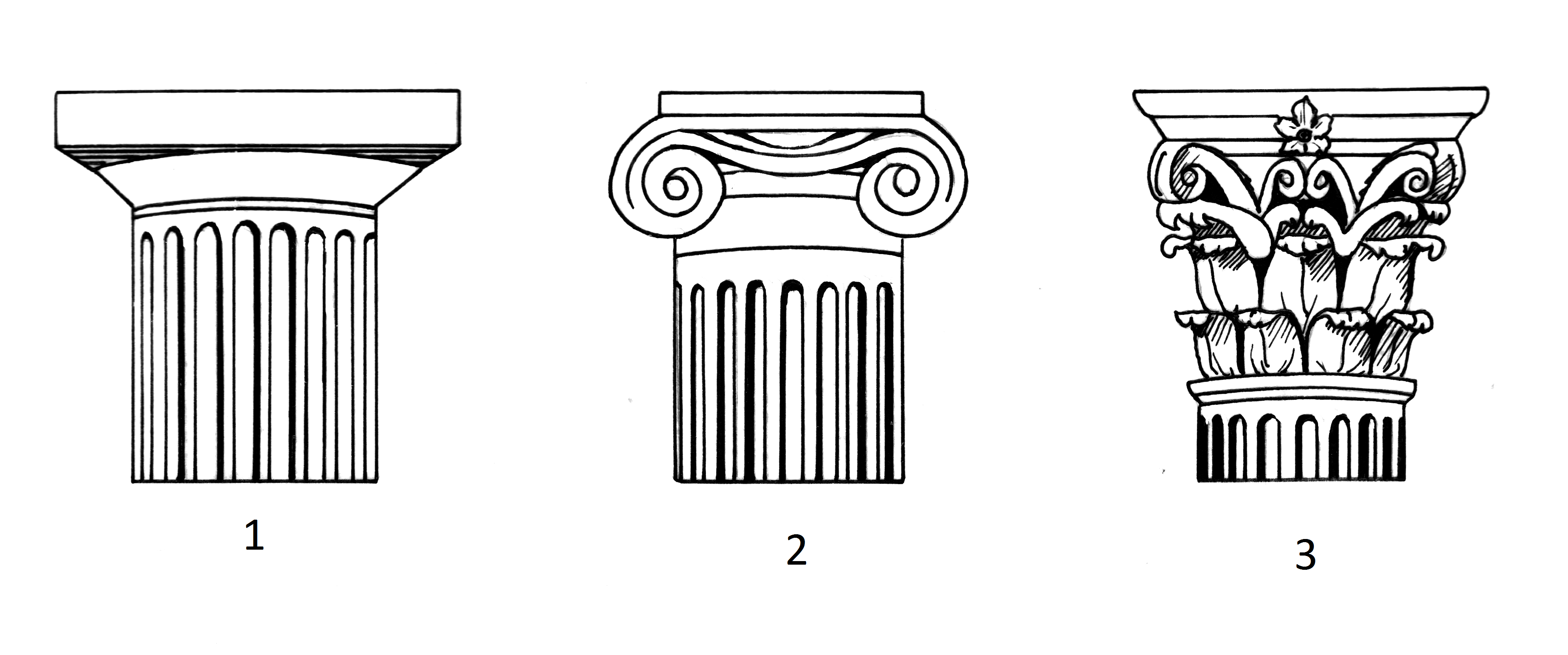 Derivative of the non-copyrighted File:Order_(PSF).png by Pearson Scott Foresman